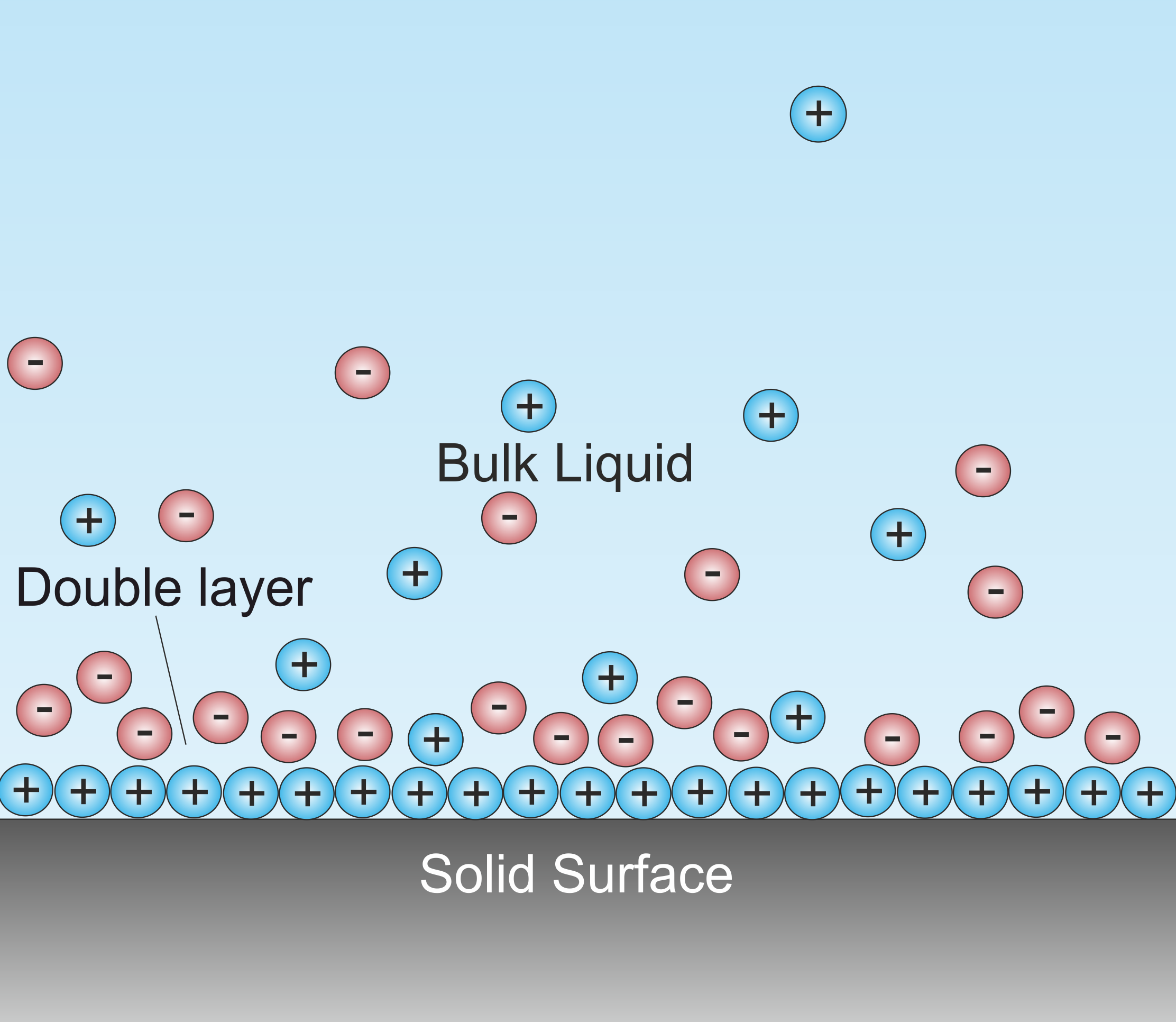 A Diagram of the electrical double layer that forms at the surface of a charged particle